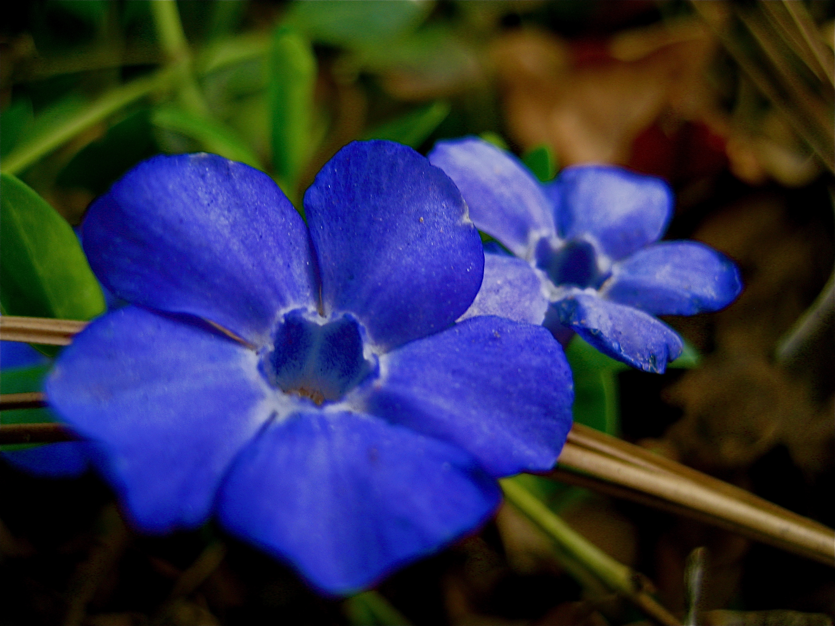 Periwinkle: plant badge of Clan Brodie. Giant steps periwinkle, a variety of Vinca major.